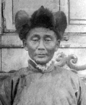 Soliin Danzan (1885 – 1924) - Mongolian revolutionary and chairman of the Central Committee of the Mongolian People's Revolutionary Party (MAKN).